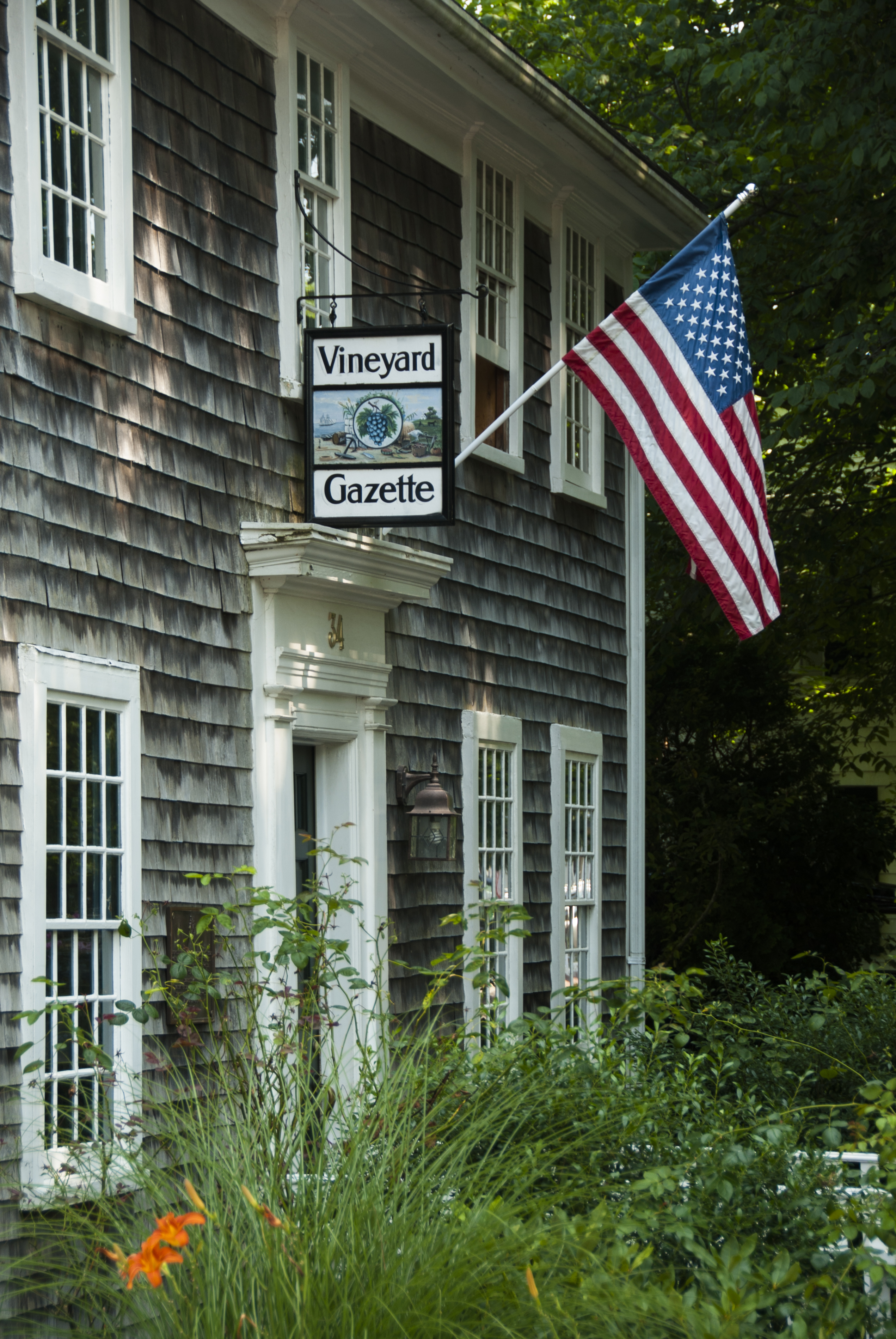 Vineyard Gazette newspaper offices, Edgartown, MA